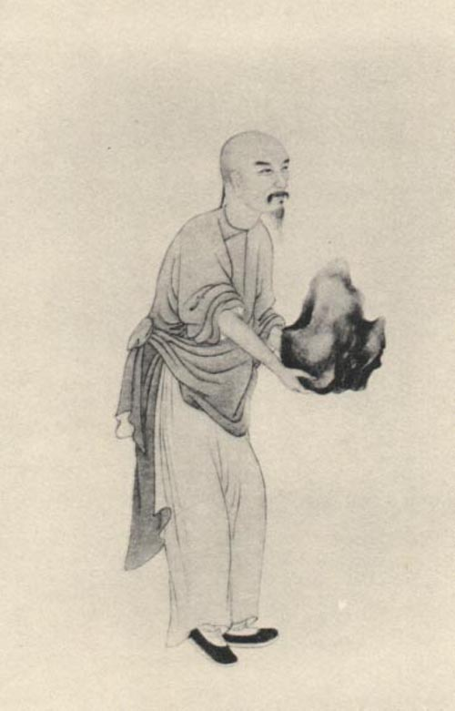 QIAN Feng, politician and scholar of the Qing Dynasty.